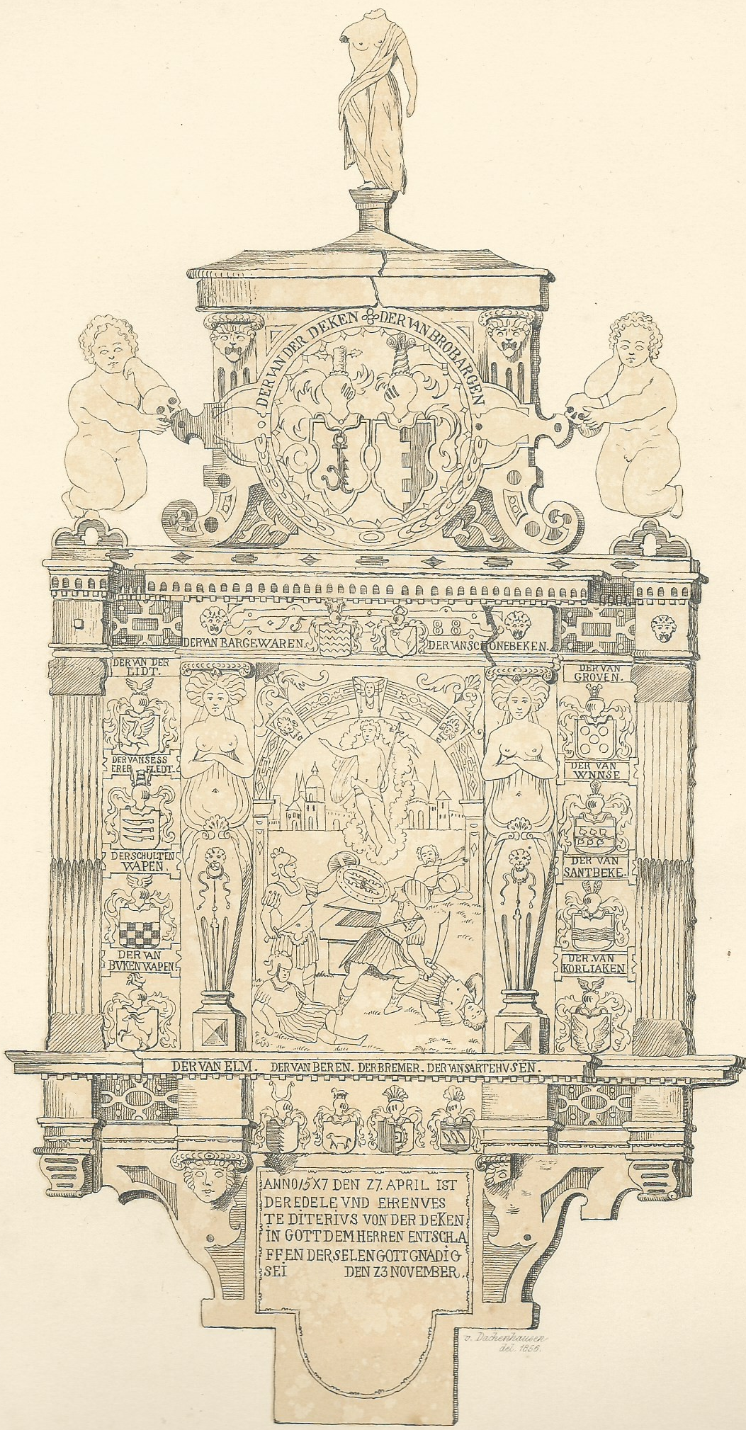 Epitaph of Dietrich von der Decken 1587